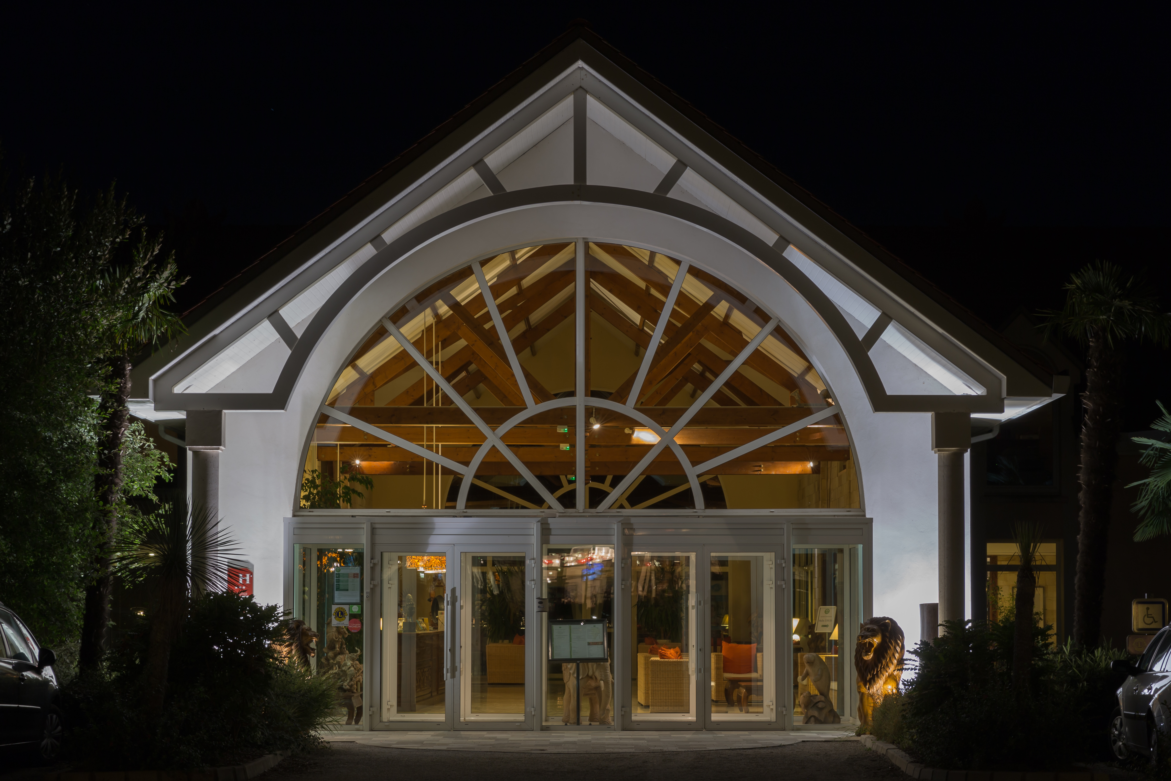 East facade, hotel entrance at Les Jardins de Beauval in Seigy, France.